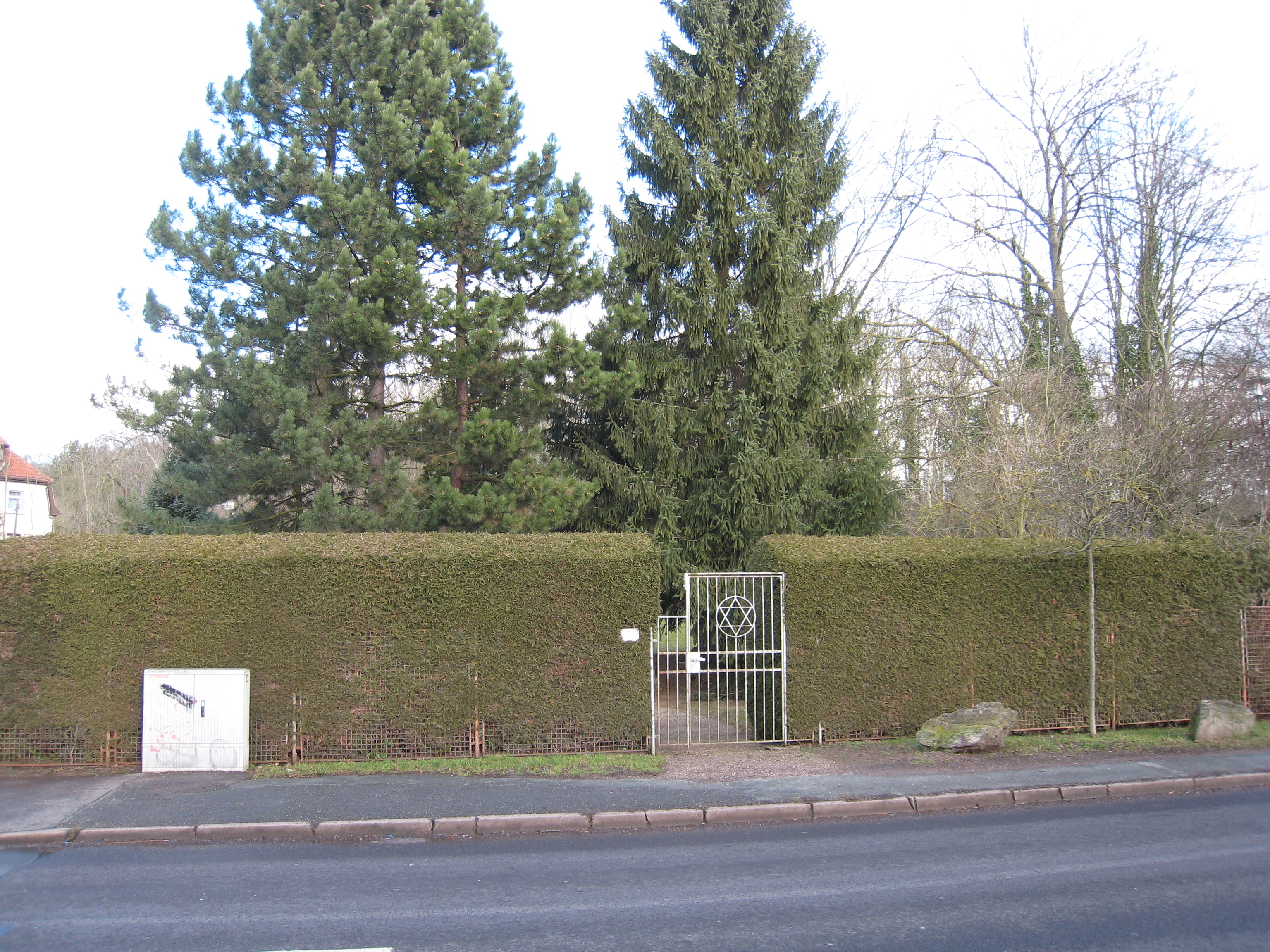 Jewish cemetery of Gotha, Eisenacher Strasse